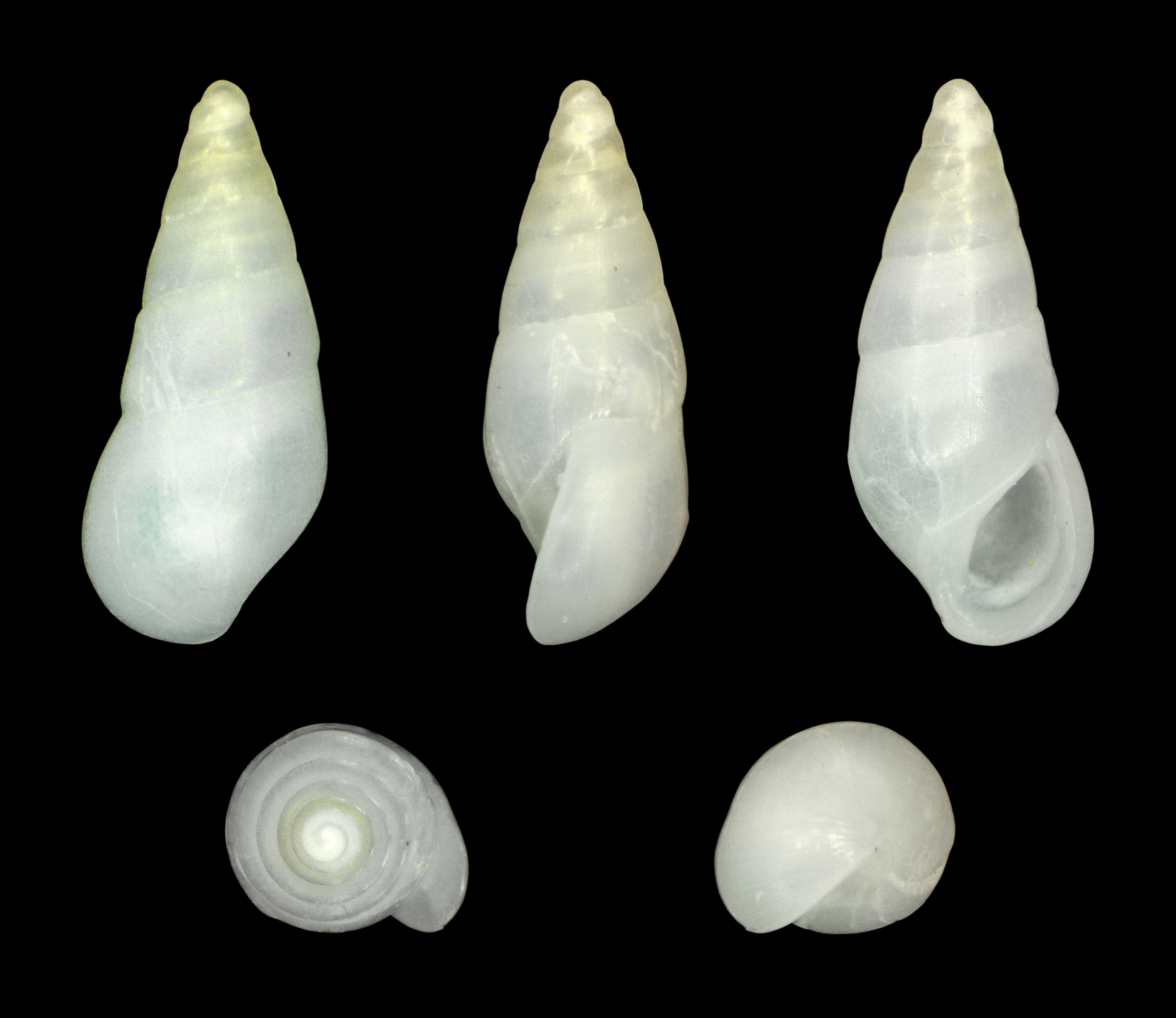 Length 0.4 cm; Originating from Playa del Duque, Tenerife, Canary Islands, Spain; Shell of own collection, therefore not geocoded. Dorsal, lateral (right side), ventral, back, and front view.